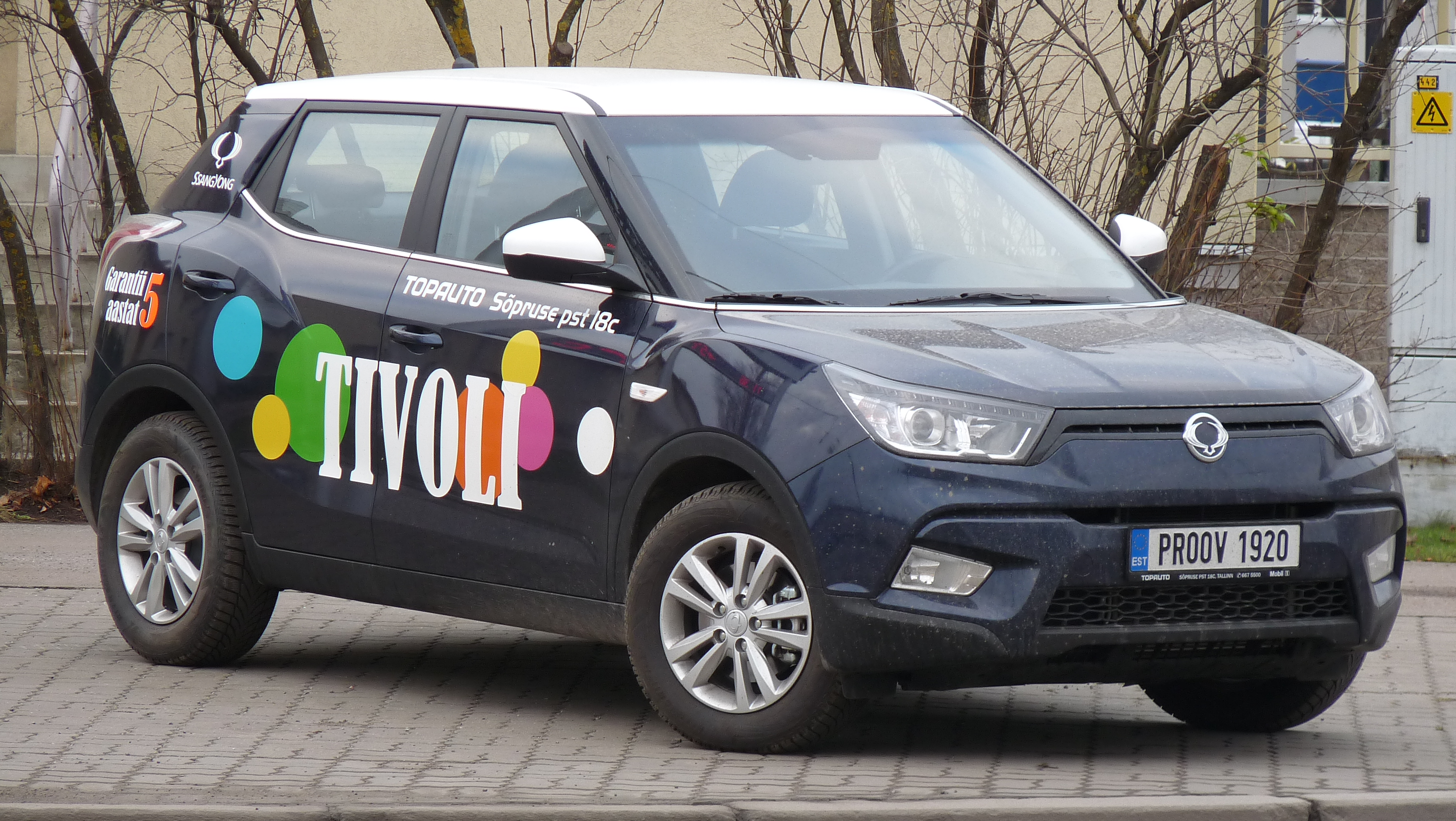 SsangYong automobile in Tallinn, Estonia